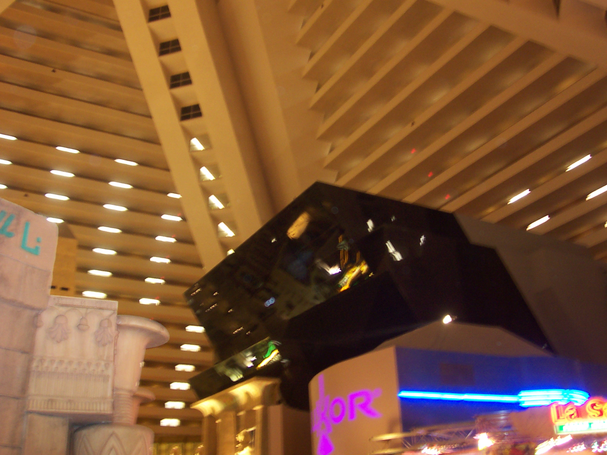 Luxor Hotel in Las Vegas taken March 23, 2005 by Michael180 with a Kodak EasyShare CX6330.